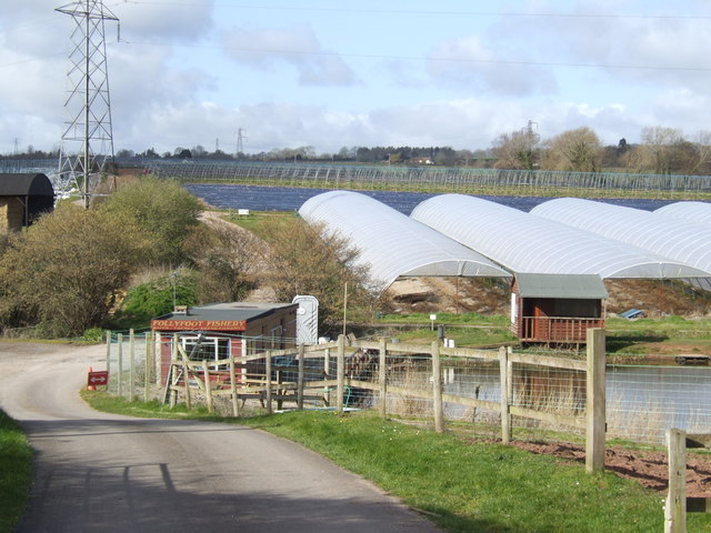 Follyfoot Fishery This fishing lake business is next to the A38 south of North Petherton. Behind are the tunnels of a soft fruit farm.